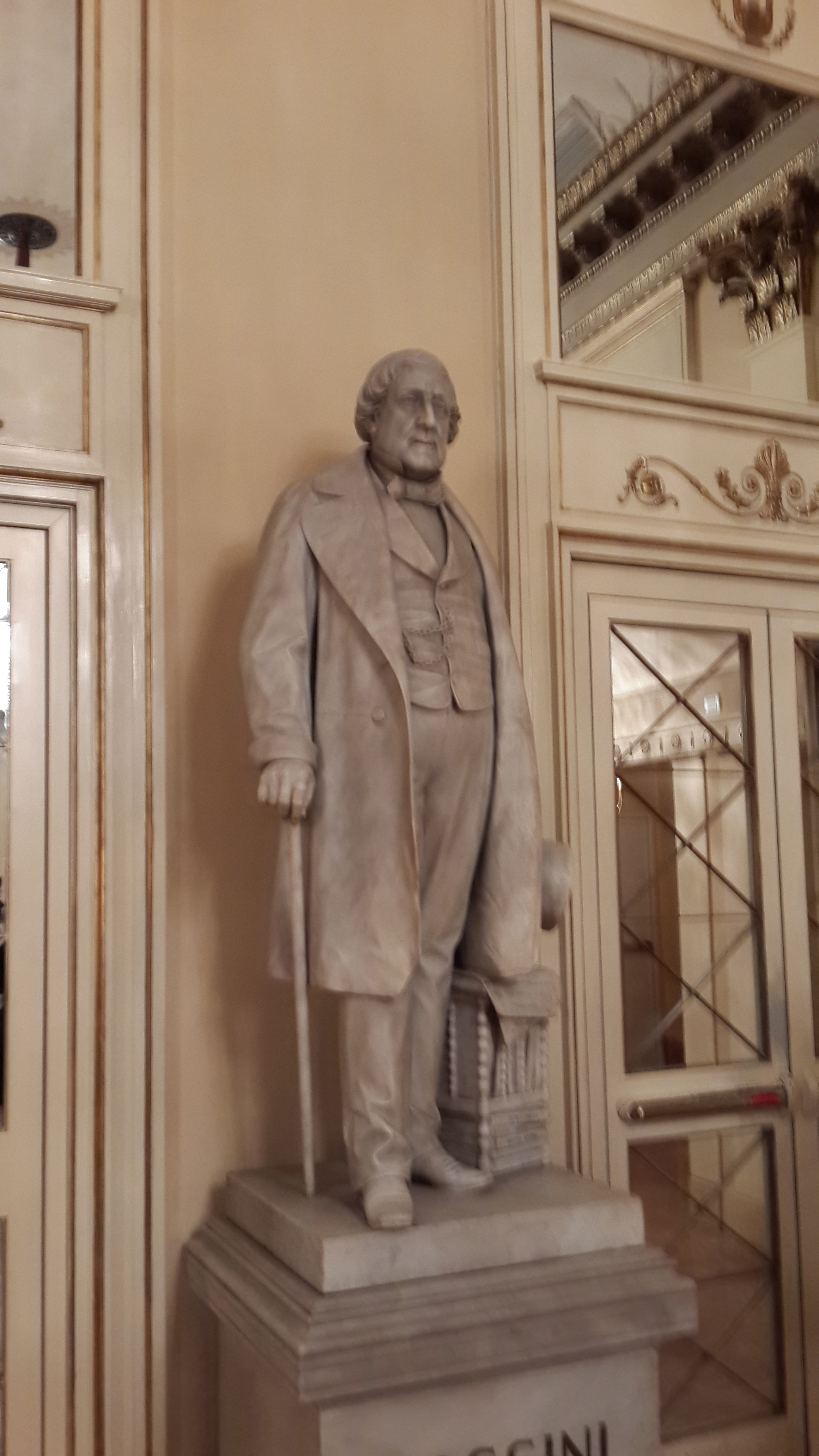 Statue of Gioachino Rossini at Teatro alla Scala.